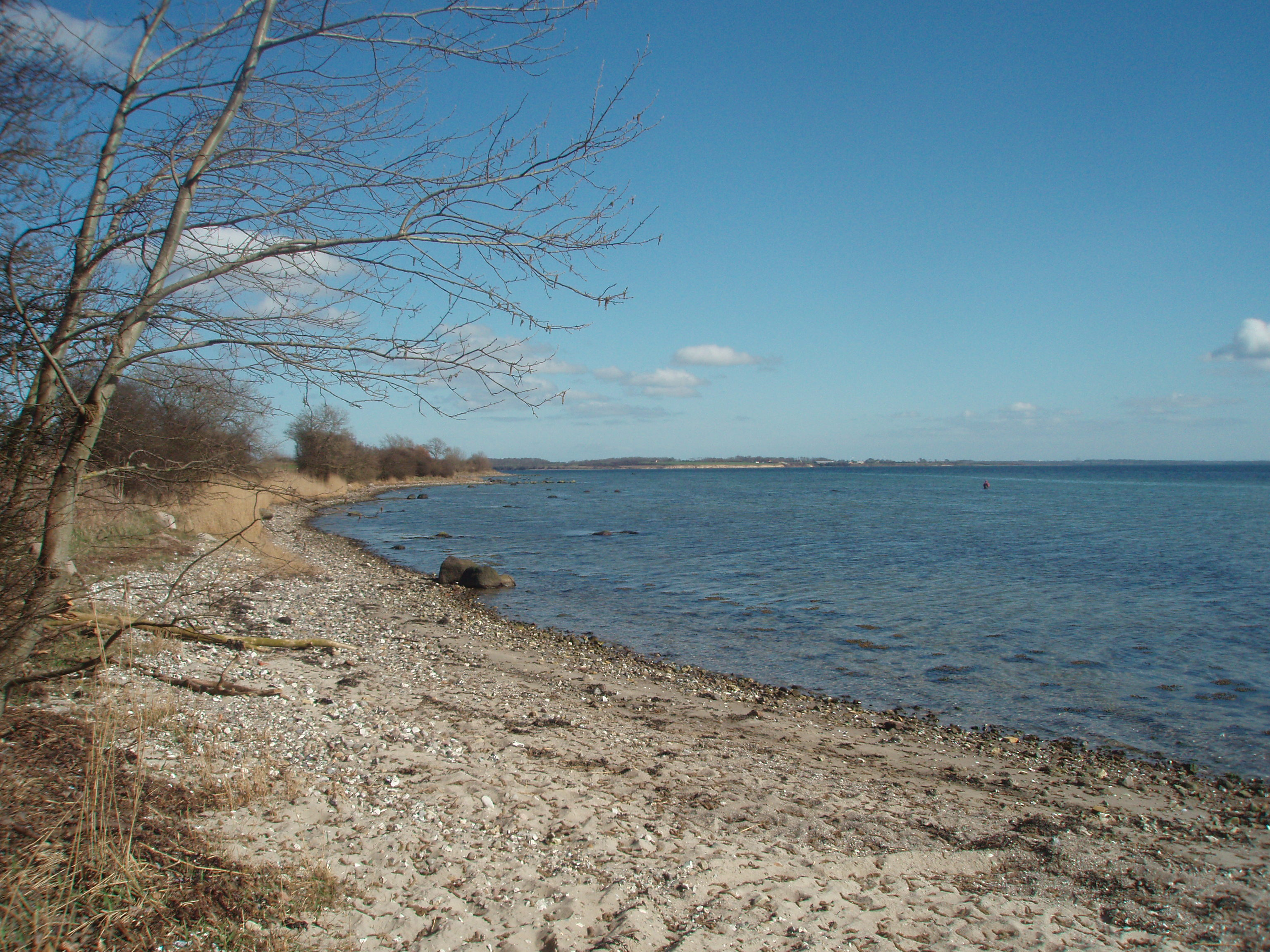 The beach af Lusig, Als, Denmark. View over Sandvig in the direction of Sandvig and Stevning.